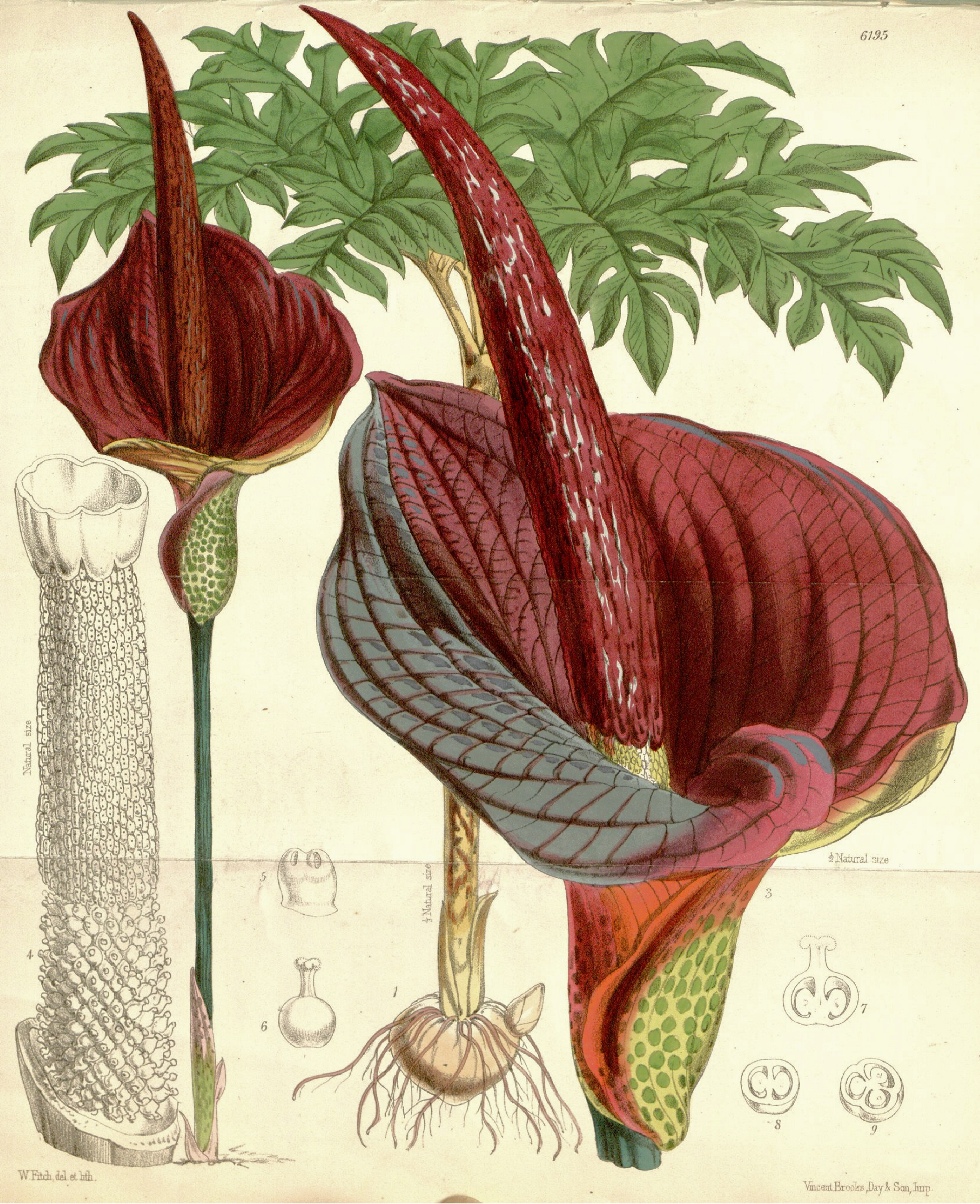 Amorphophallus konjac botanical drawing (Curtis's Botanical Magazine)